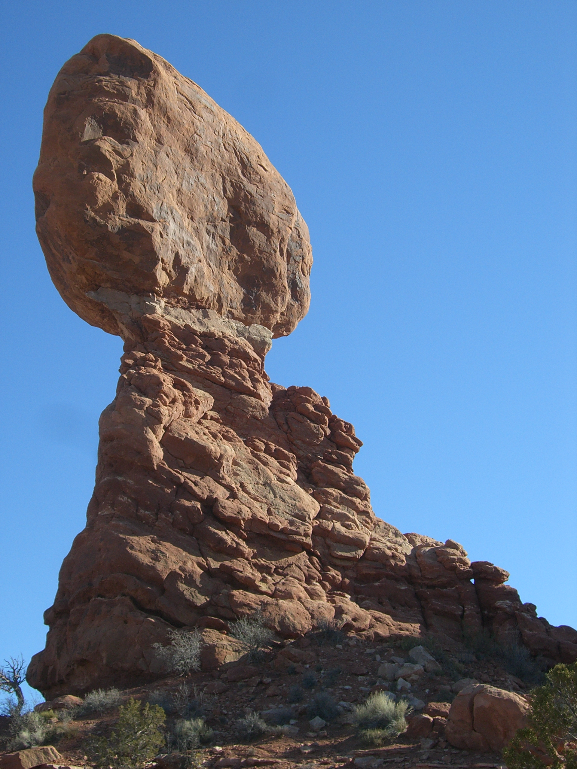 Balanced Rock, Arches National Park, Utah, USA